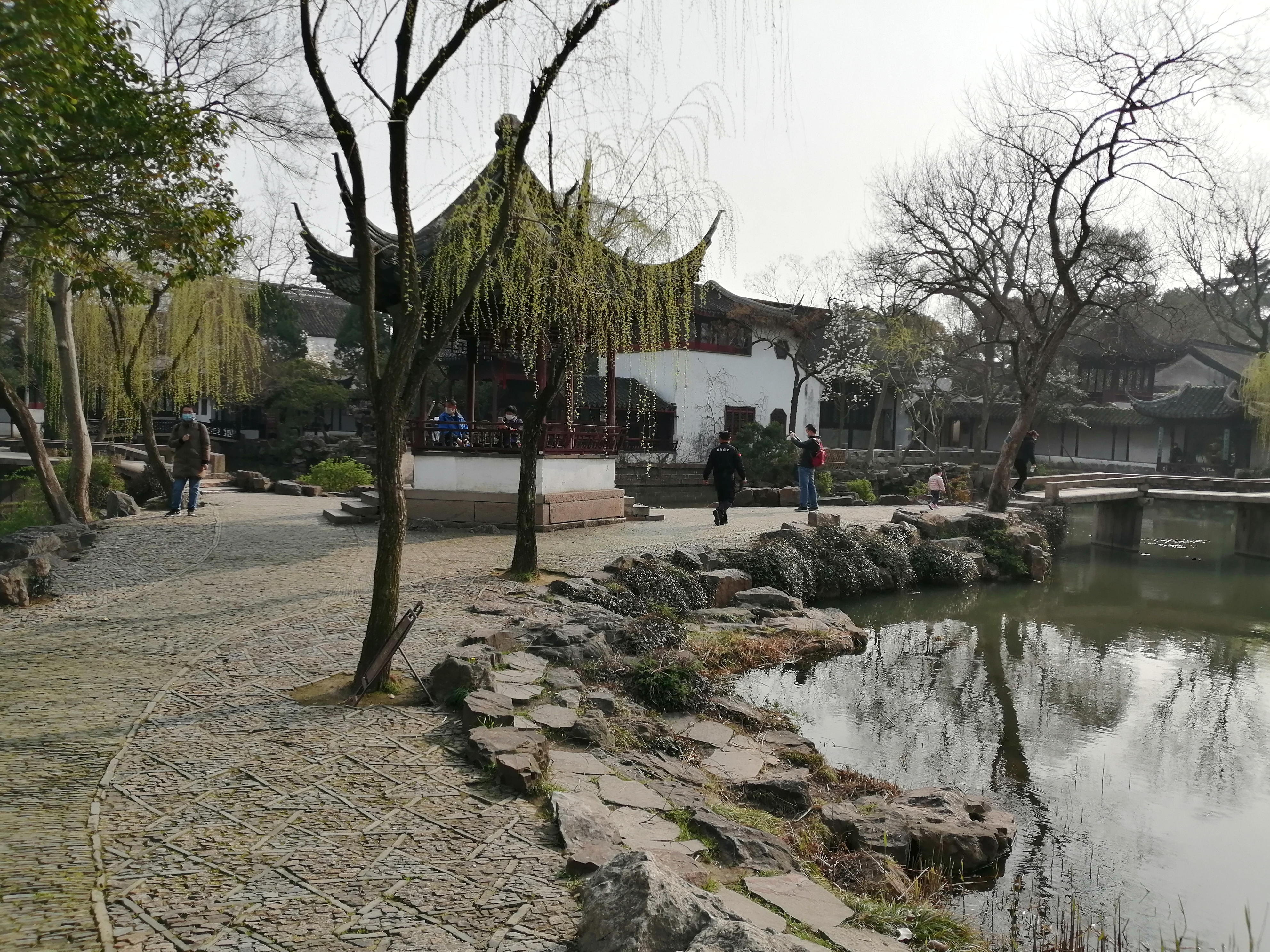 Only 12 tourists inside, and there are some security officers to keep the order.